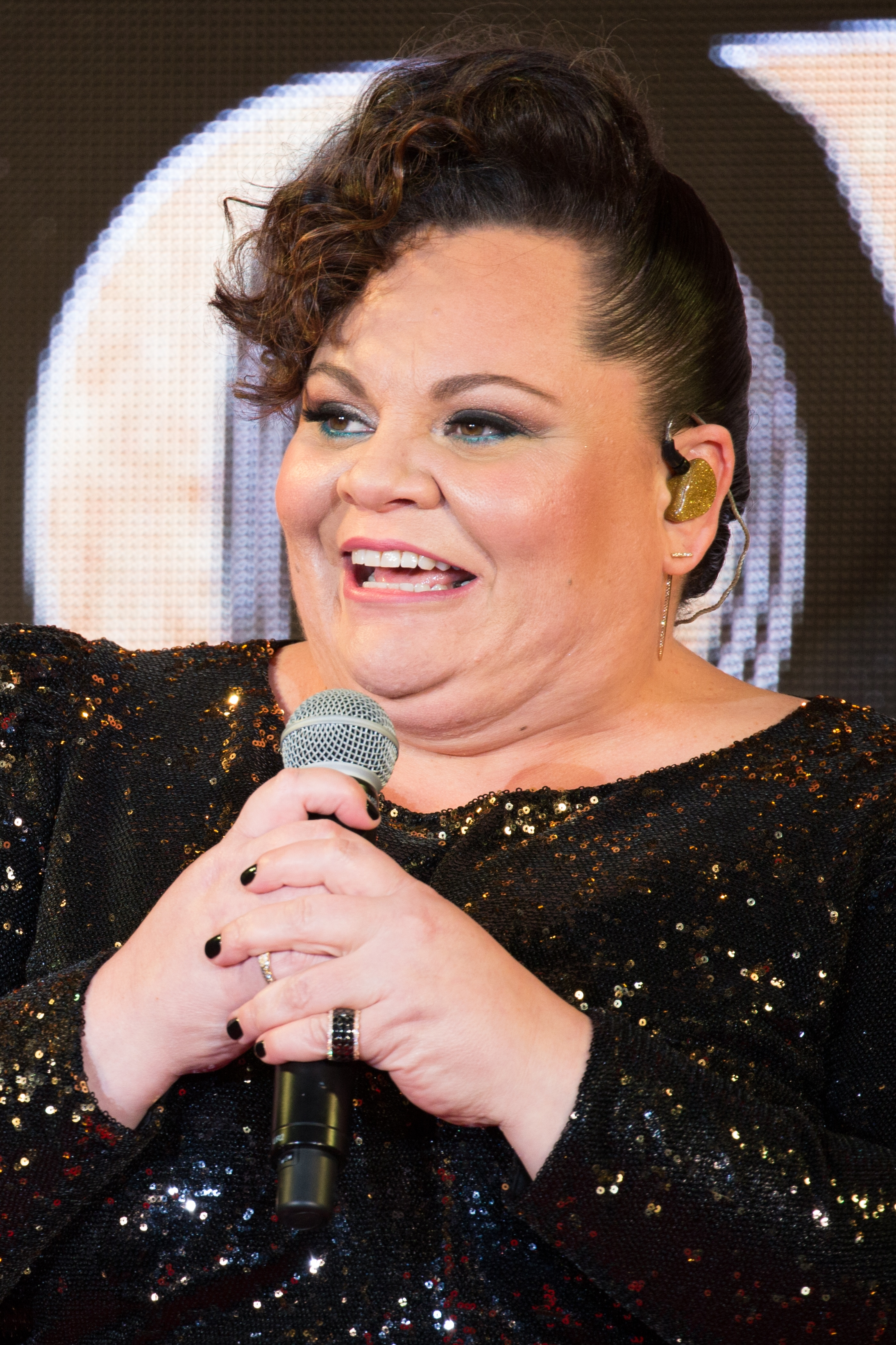 Keala Settle at the The Greatest Showman red carpet premier in Japan on 13 February 2018.